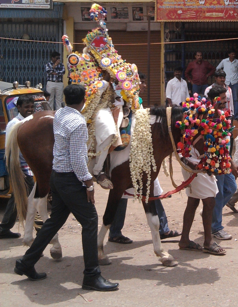 Sehra Dress in India